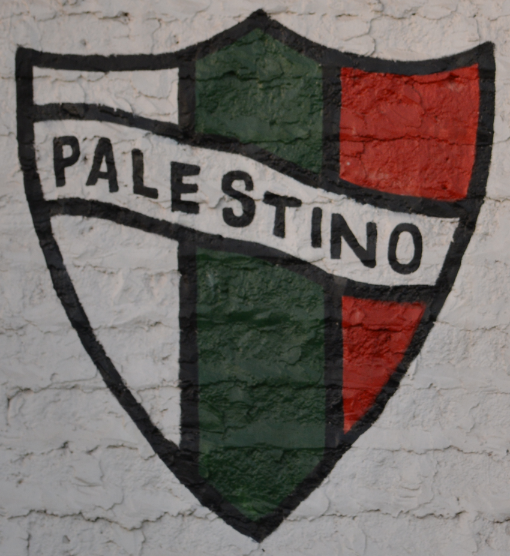 Logo of the Club Deportivo Palestino